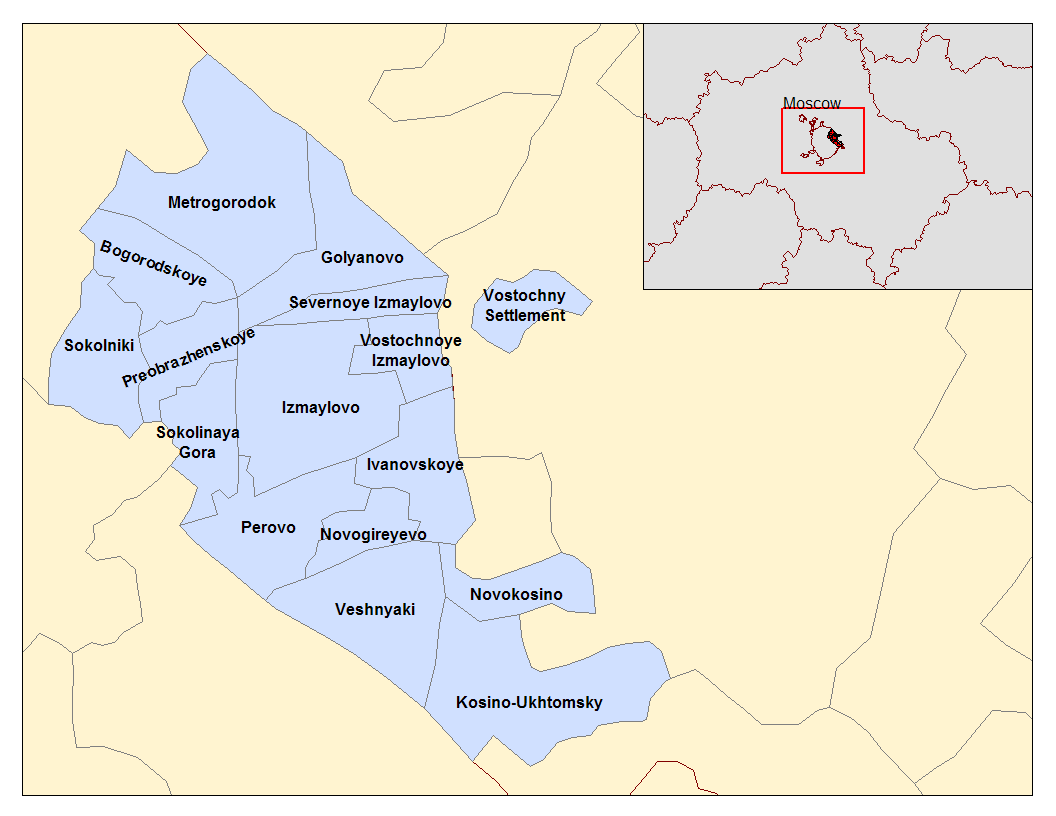 Map of the districts of the Eastern Administrative Okrug of the Federal City of Moscow. Created by Rarelibra 20:51, 3 April 2007 (UTC) for public domain use, using MapInfo Professional v8.5 and various mapping resources.